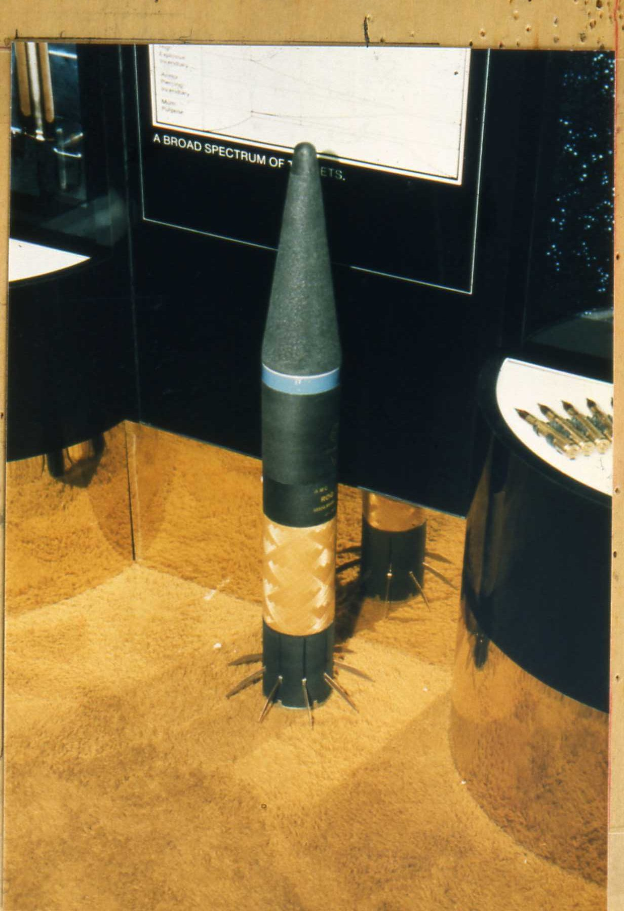 Rocket projectile of French APILAS infantry antitank weapon. Photo taken at the Association of the United States Army 1988 convention in the equipment and weapons hall.